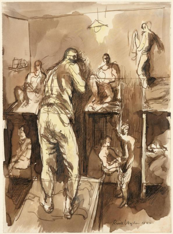 A Barrack-room image: an interior of a military barrack room, with men sitting and standing on two-tiered bunk beds. In the foreground a man stands on the top bunk, with a row of three bunk beds along the wall behind him, all occupied with other men. A single light bulb illuminates the room from the ceiling.